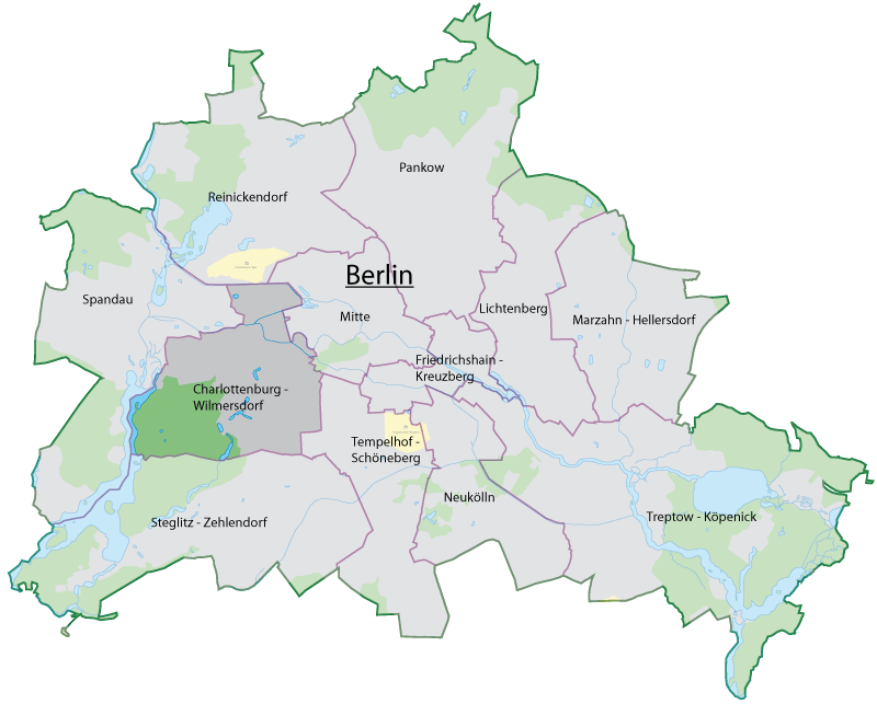 Author: Felix Hahn Source: Based on Water map of Berlin Description: Map of Berlin and its districts.